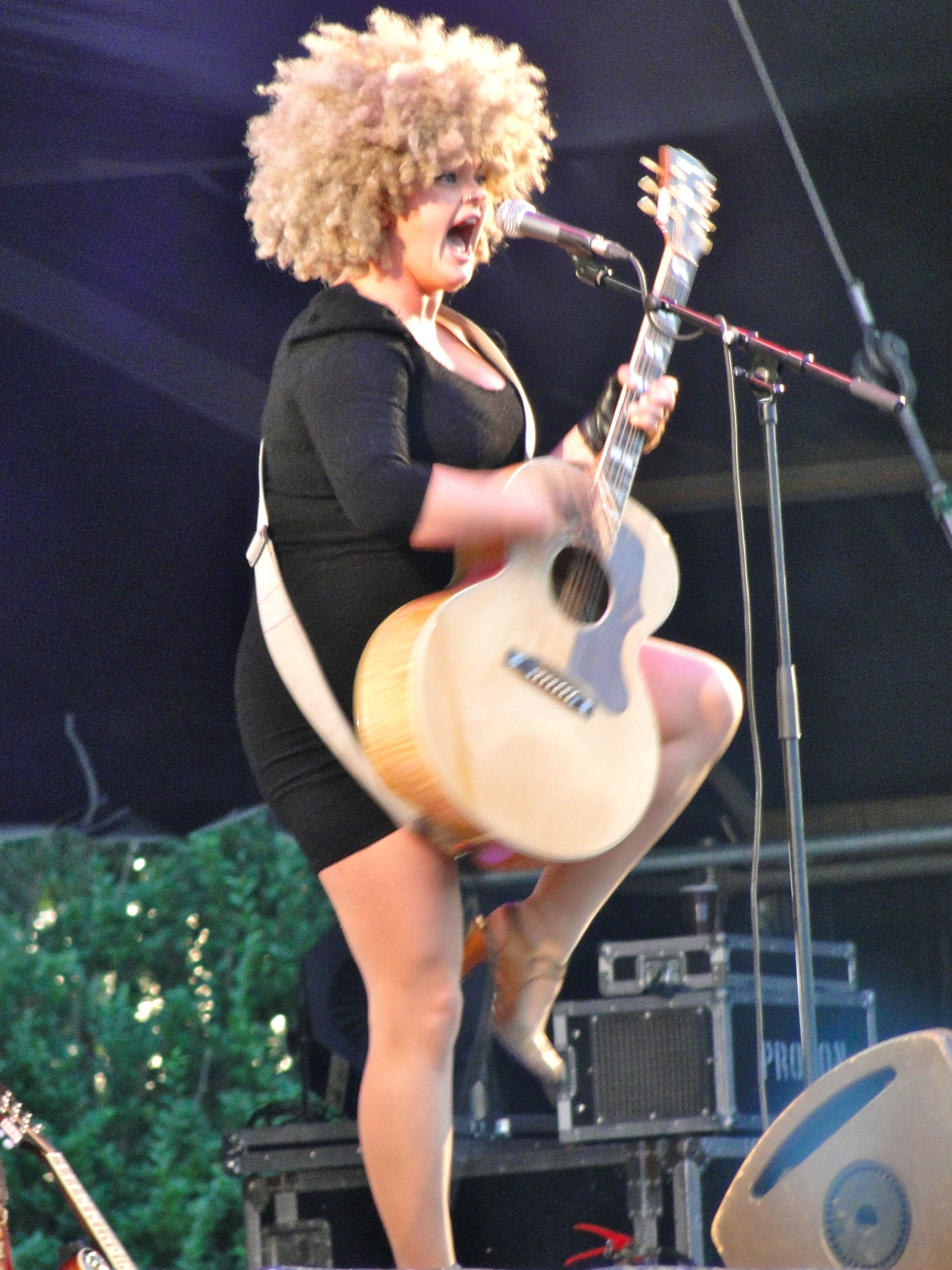 Marianne Sveen at "Hamburger Kultursommer", Germany, 2011